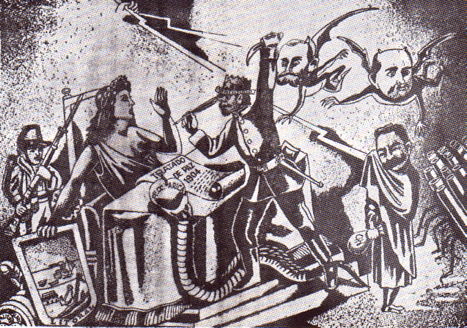 Karikatur auf den Friedensvertrag von 1904. -- In: El Duende. -- La Paz Bildquelle: Abecia Baldivieso, Valentín : Las relaciones internacionales en la historia de Bolivia. -- La Paz [u.a.] : Los Amigos del Libro. -- Tomo II. -- 2. ed. -- 1986. -- S. 251